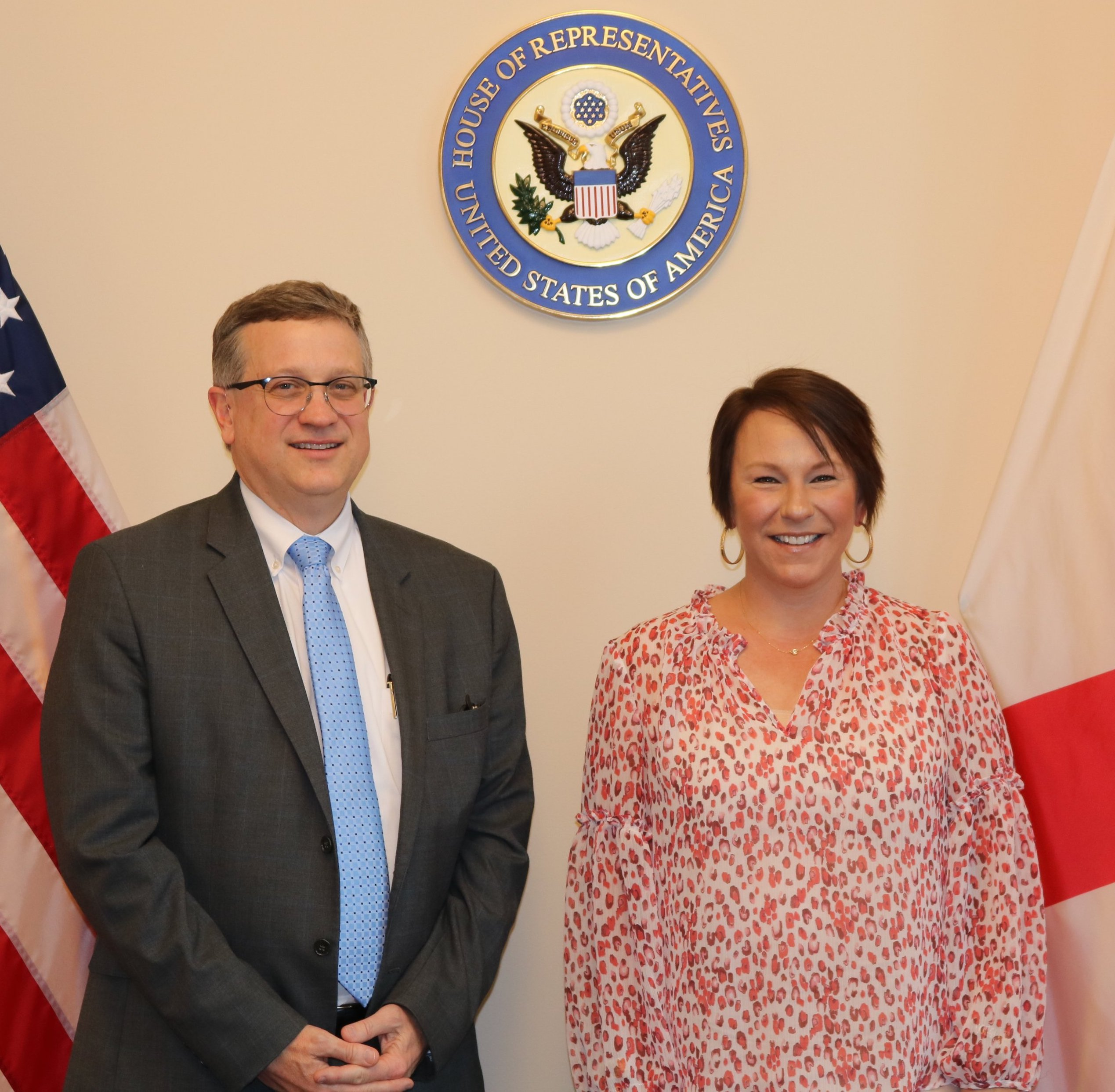 Thank you to the Alabama Department of Transportation, National Association of Health Underwriters, EPSCoR Alabama, Alabama Credit Union Association, ONE Campaign, & Alabama State Health Officer Dr. Scott Harris for your time!